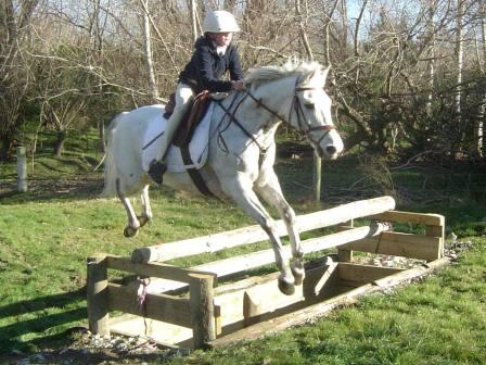 A small Trakehner on a pony club course.